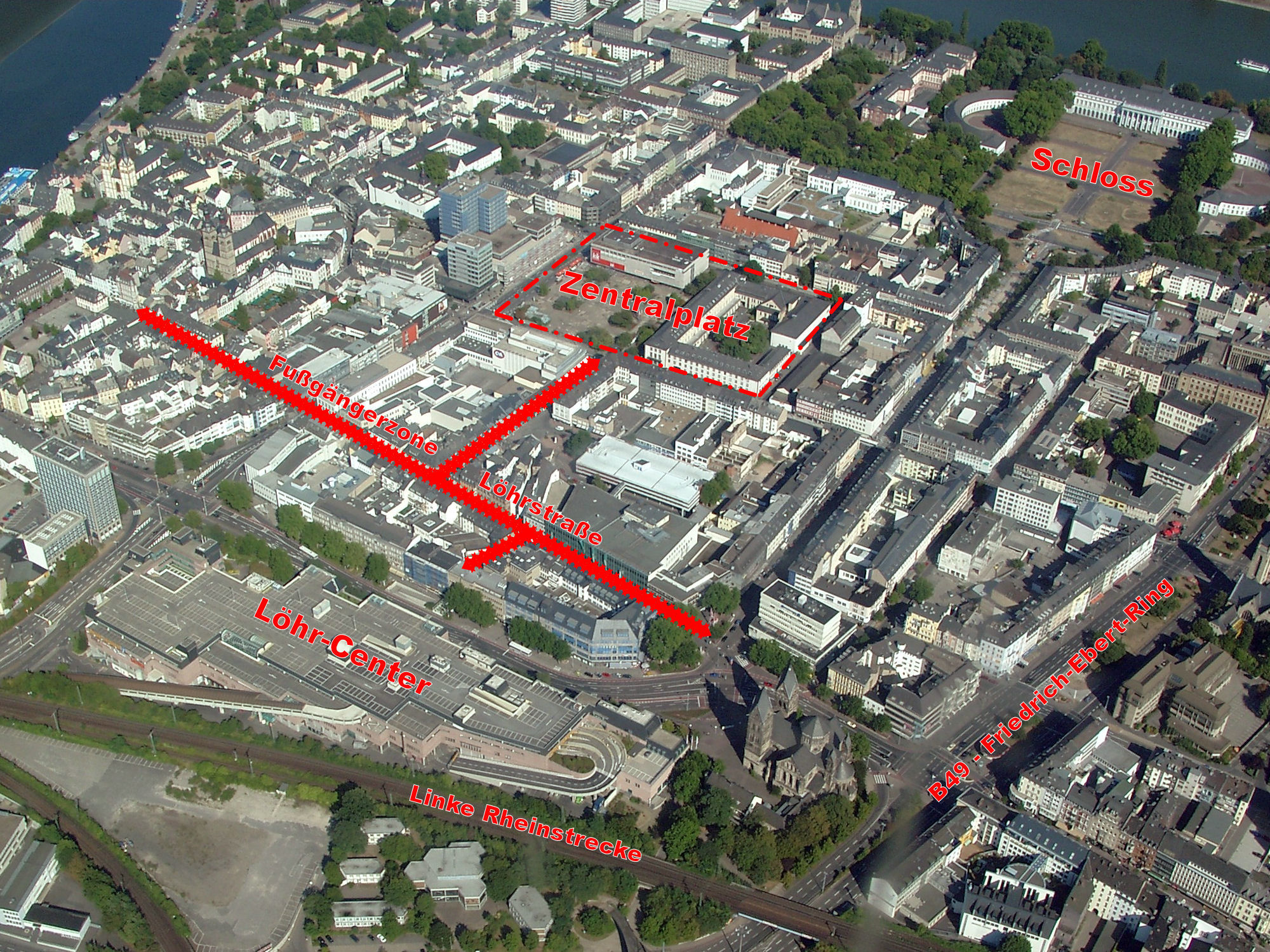 Center of Koblenz